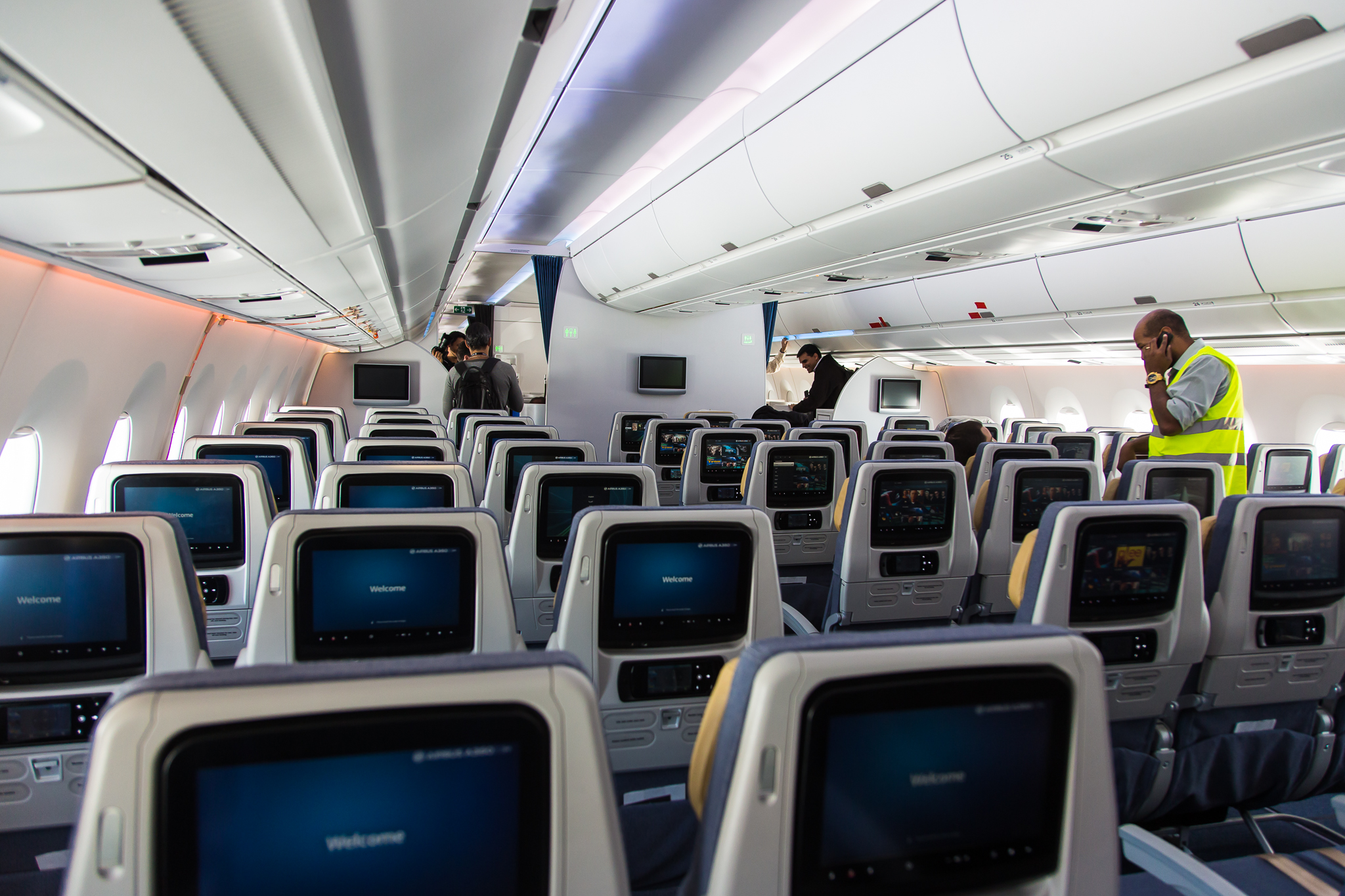 The economy class of Airbus A350 XWB, at São Paulo–Guarulhos International Airport (SBGR).